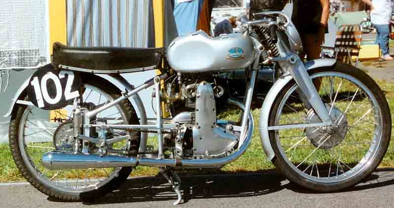 Mondial 125 cc OHC Racer 1953